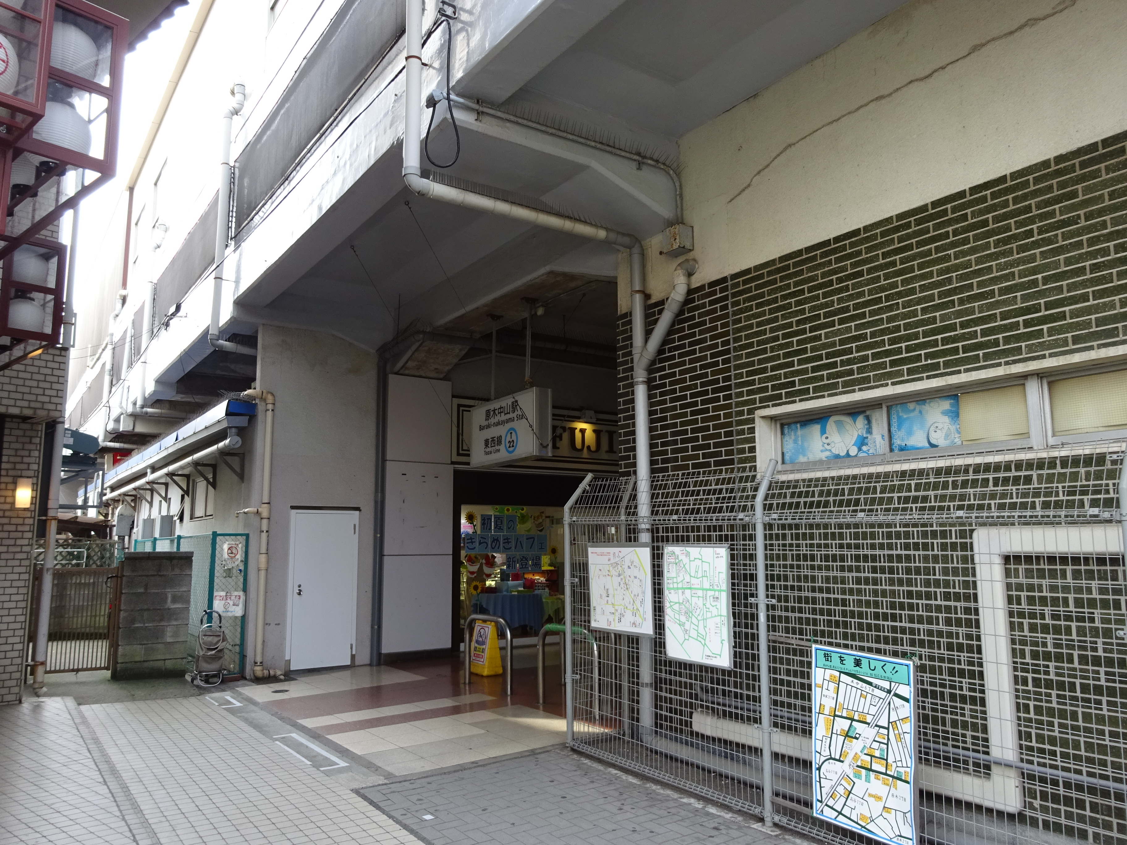 South entrance of Baraki-Nakayama Station